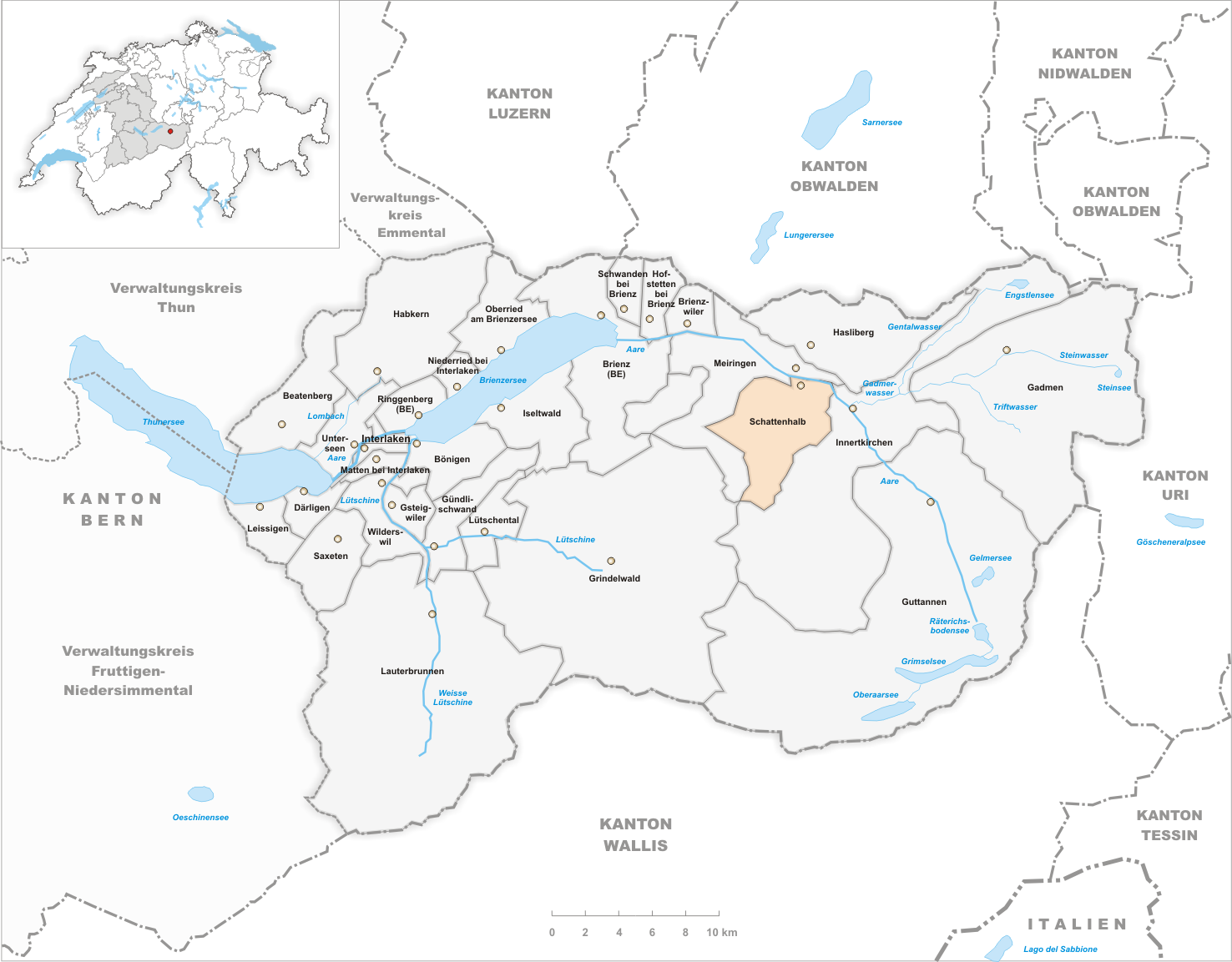 Municipality Schattenhalb